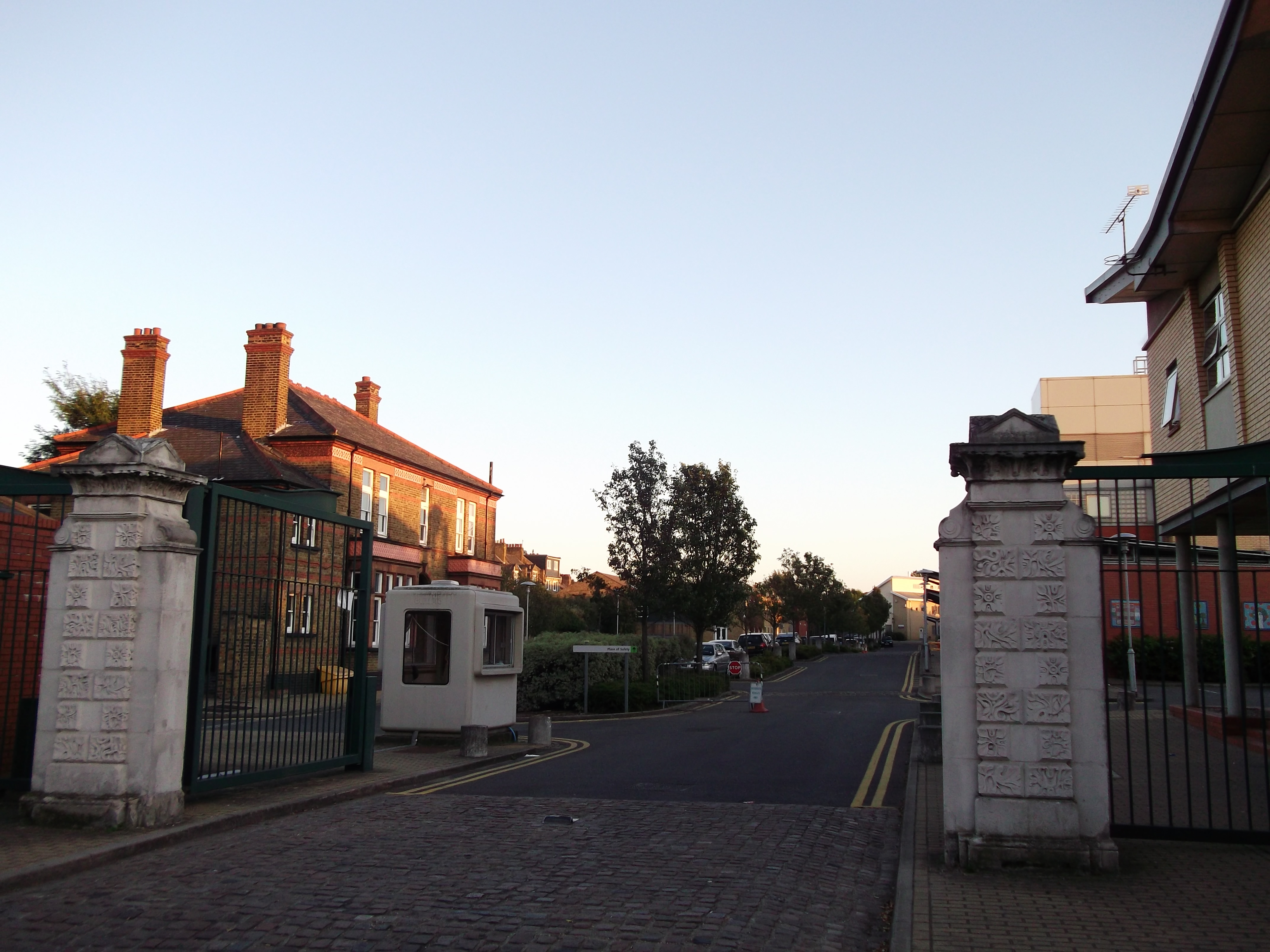 Entrance to South Western Hospital